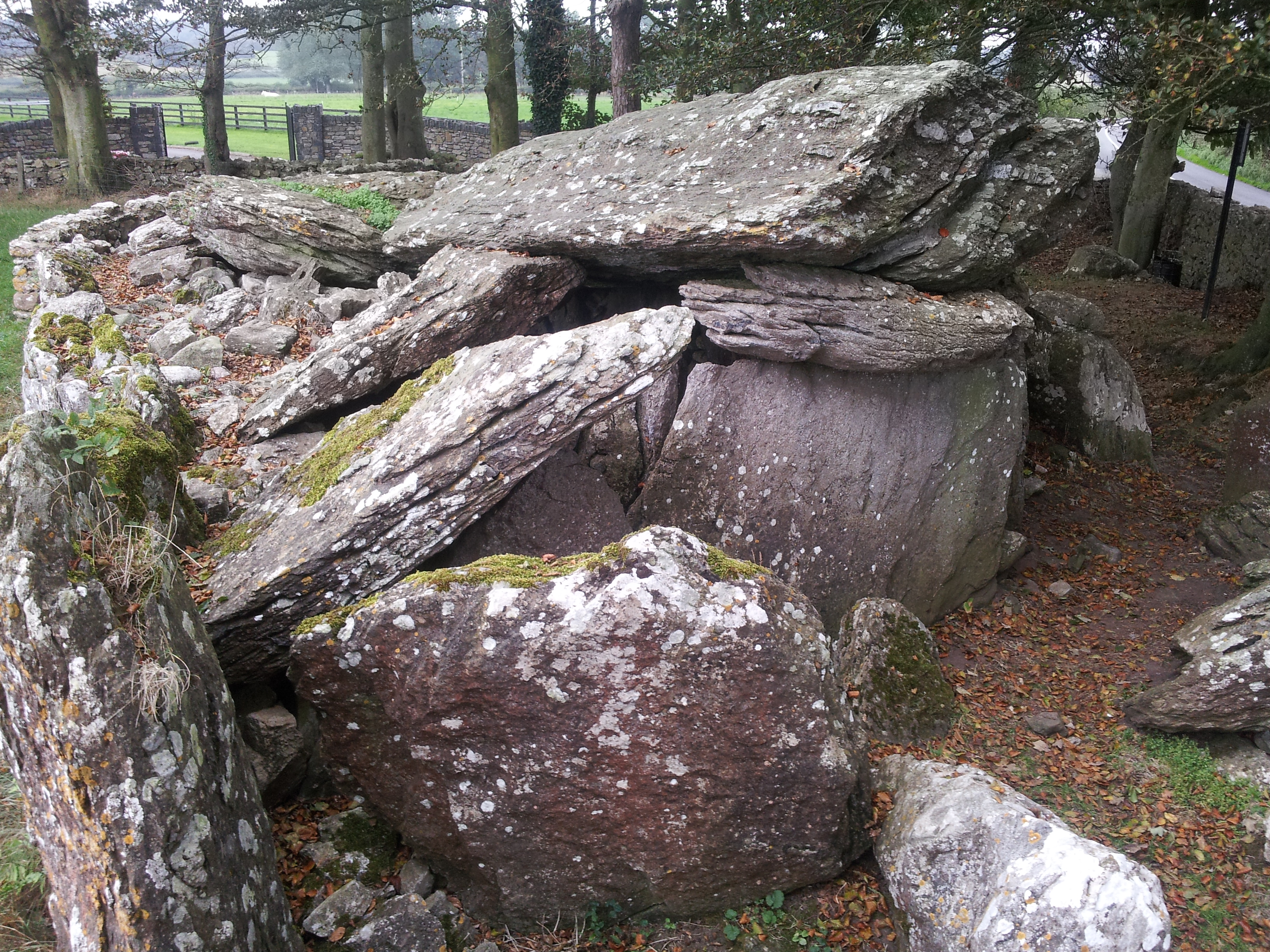 Labbacallee Wedge Tomb